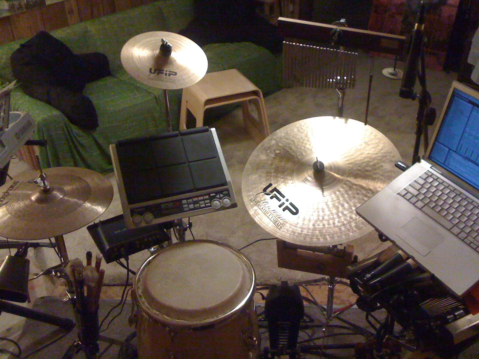 Percussion setup with Ableton Live sequencer